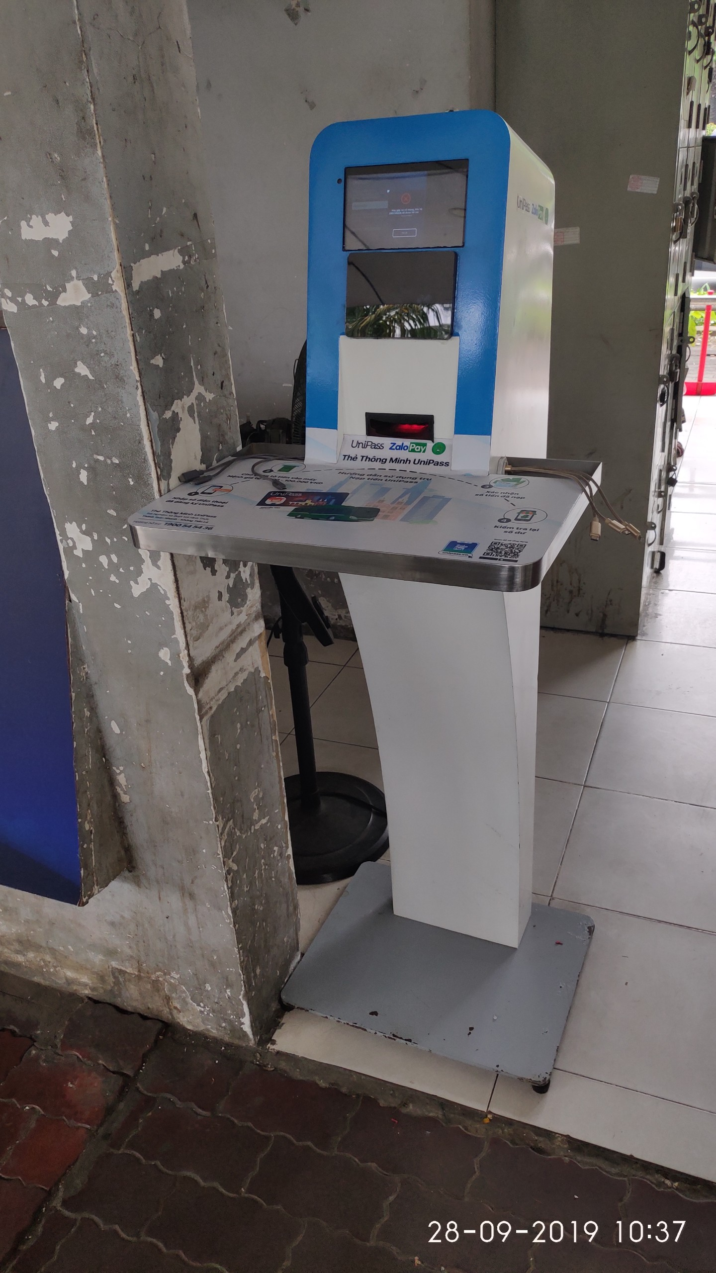 UniPass automatic recharge machine in Sep 23rd park bus operating station